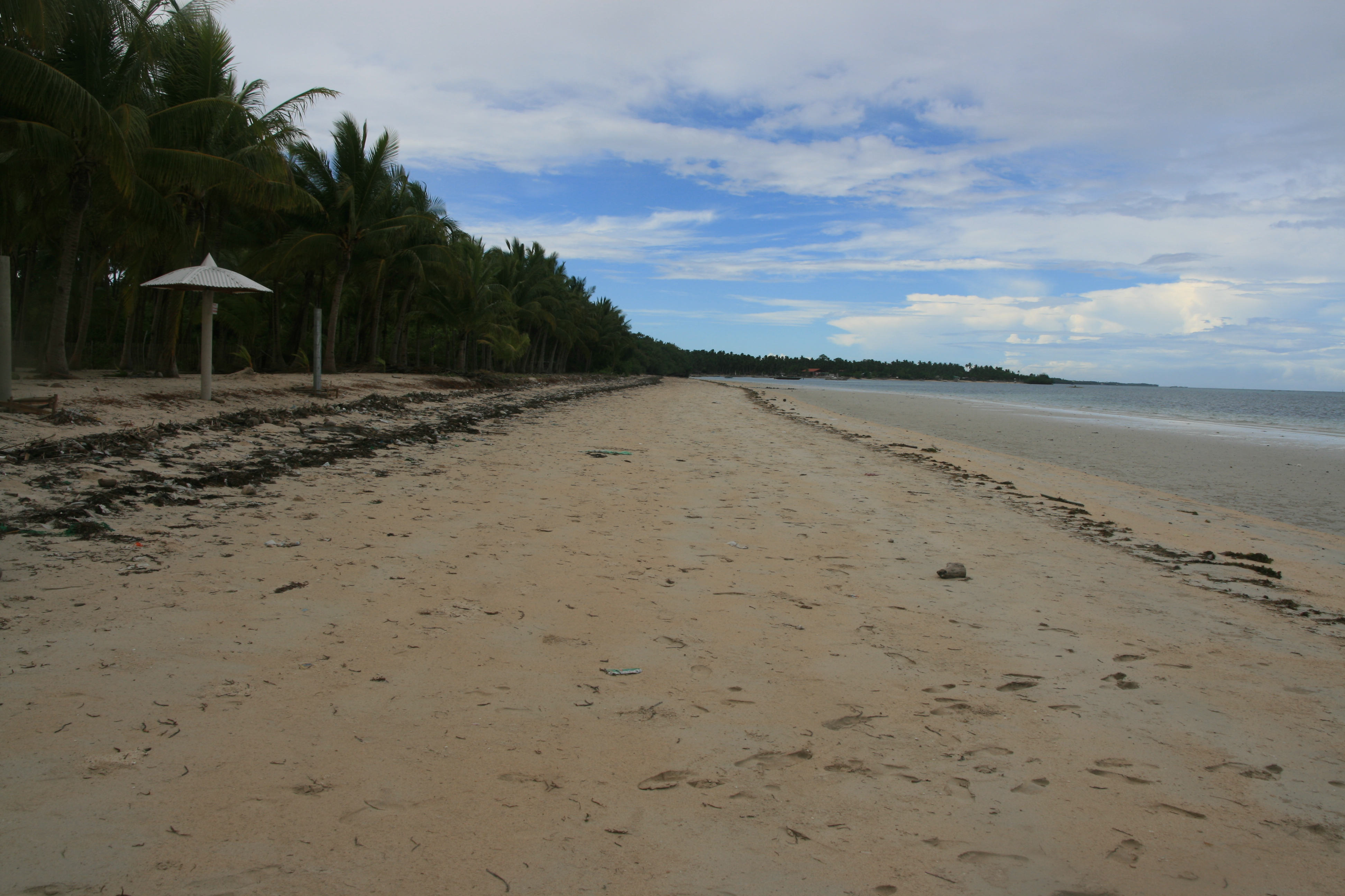 Empty beach, empty sea at Baig-dad